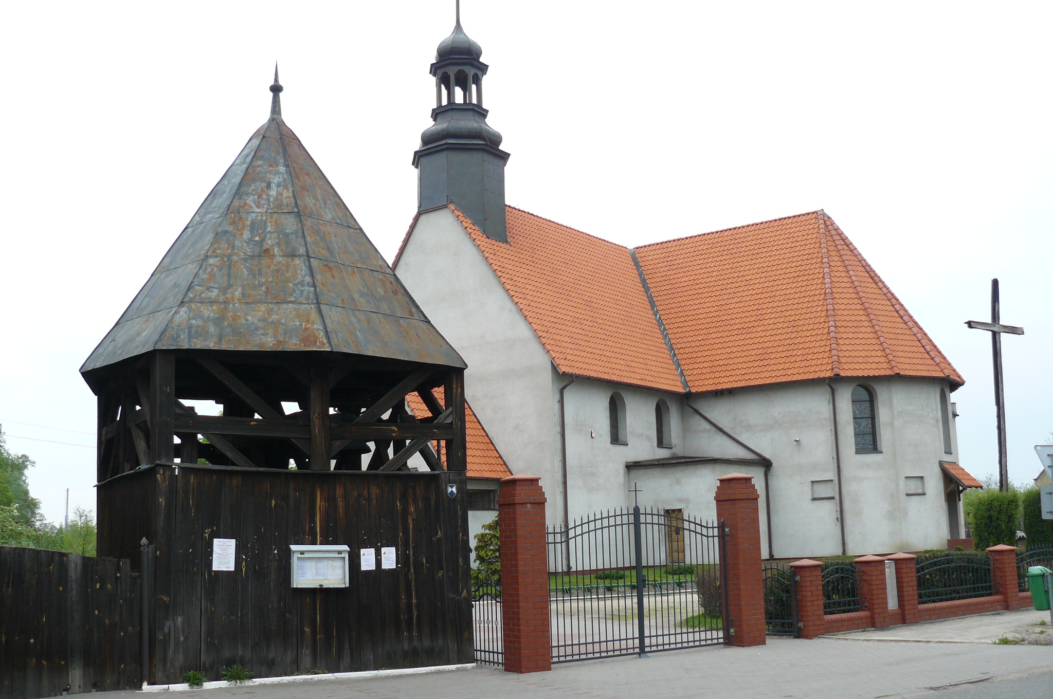 Szlichtyngowa - Church.